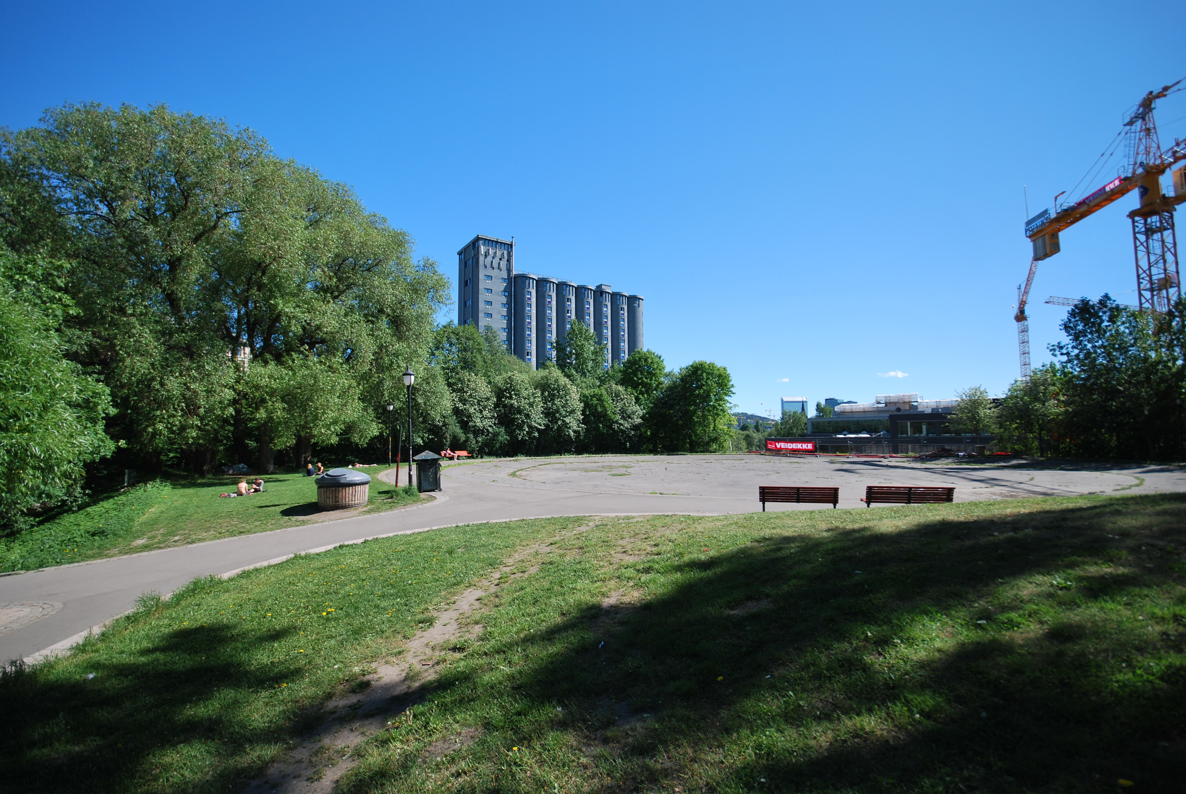 Kuba, Oslo, with Grünerløkka Student Hous in background